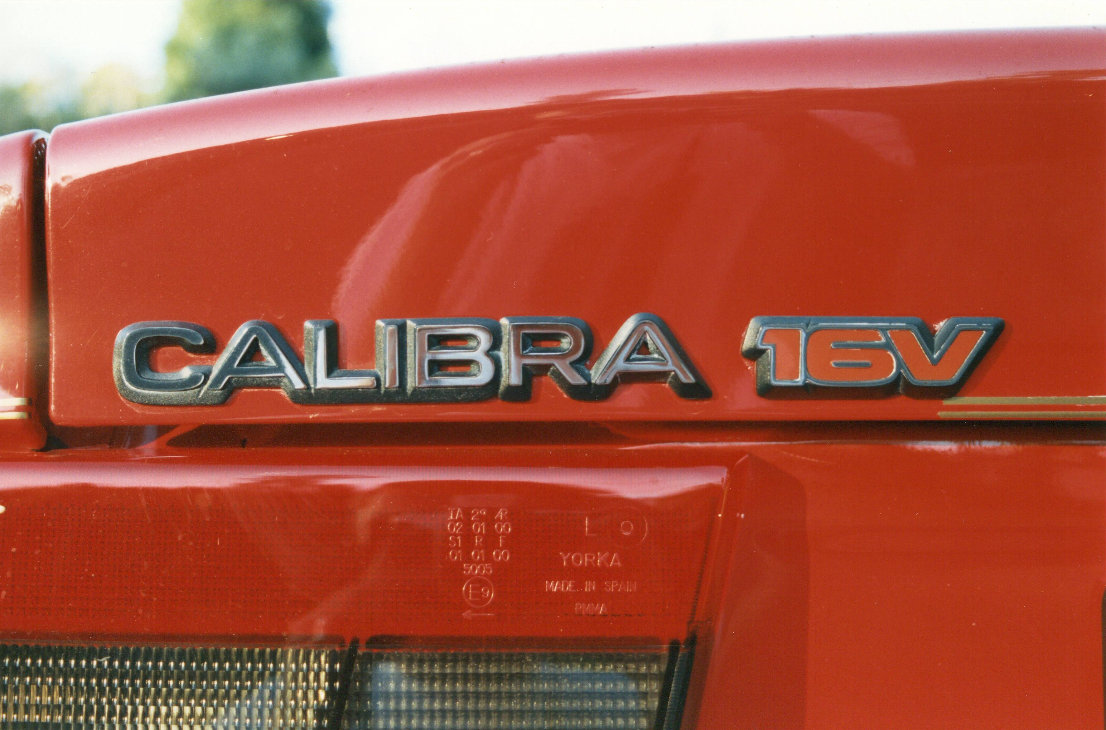 This image is a scan of a 35mm print of the Holden Calibra I bought in 2000